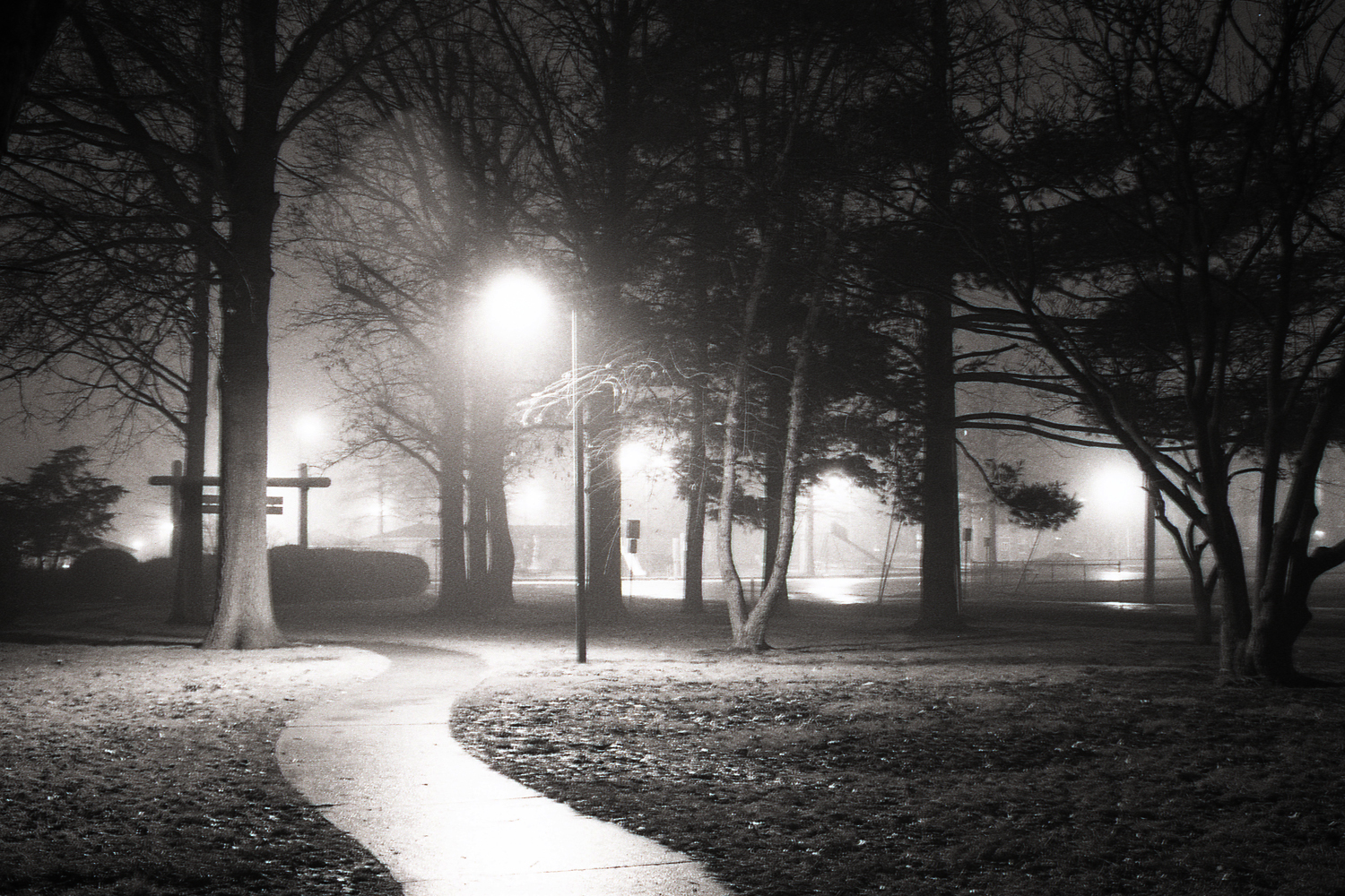 This is a view from inside the Bethalto Arboretum at night. This shot was taken on a Minolta Maxxum 9000 with Ilford HP5 Plus film.